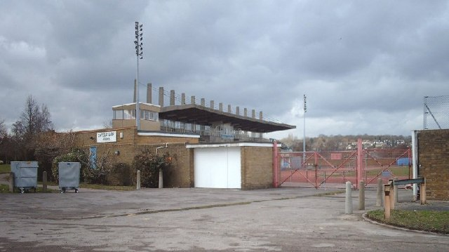 Barnet Copthall Stadium. View of the Stadium from the south.